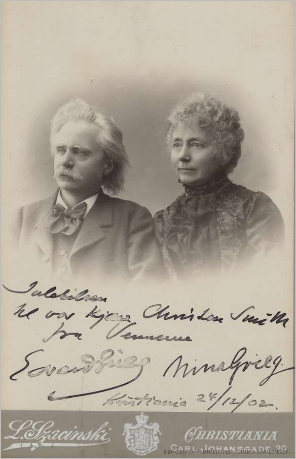 Nina and Edvard Grieg, portrait, 1899(?).